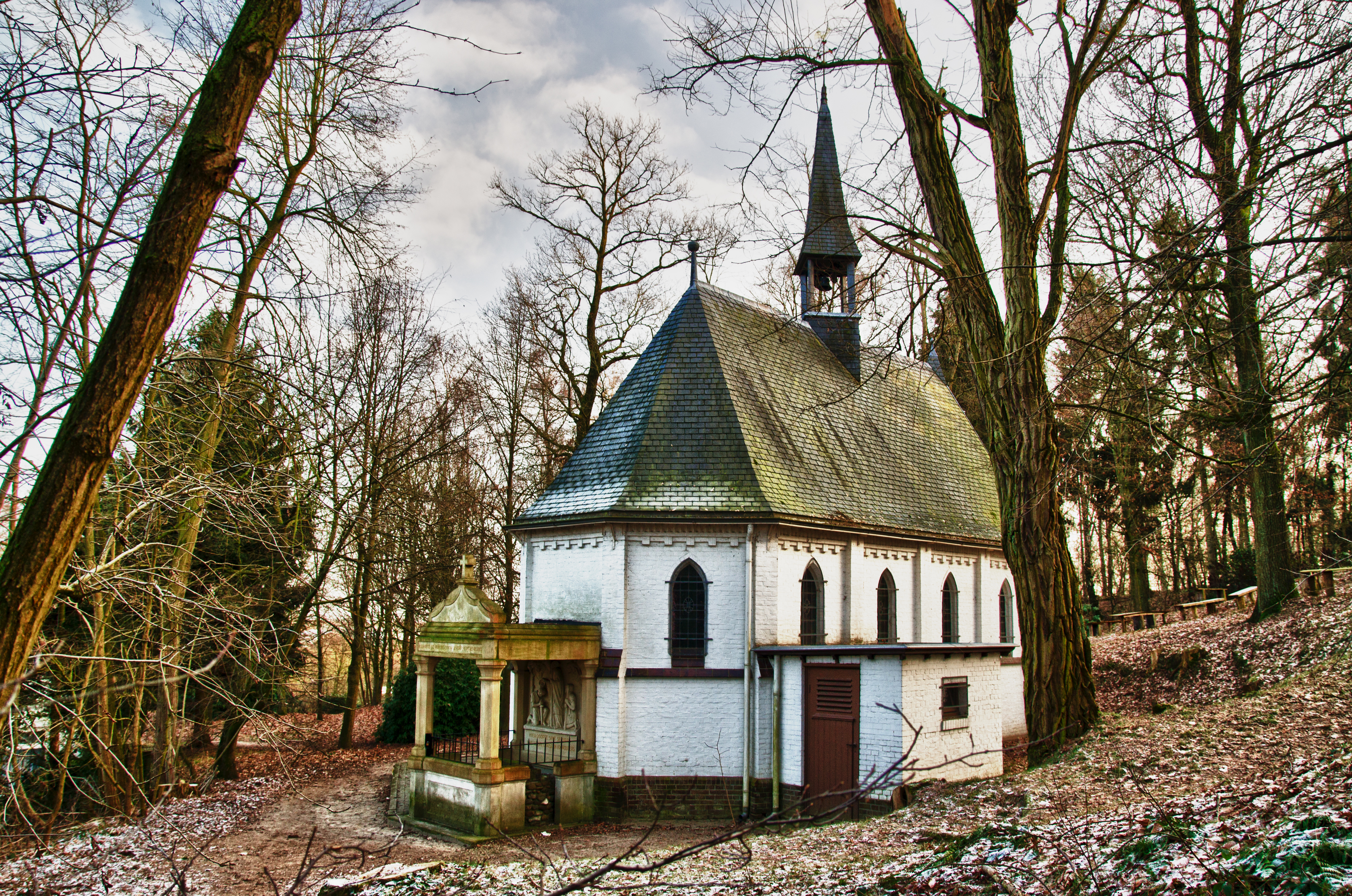 Servaaskapel (1892) - Nunhem - Limburg - the Netherlands